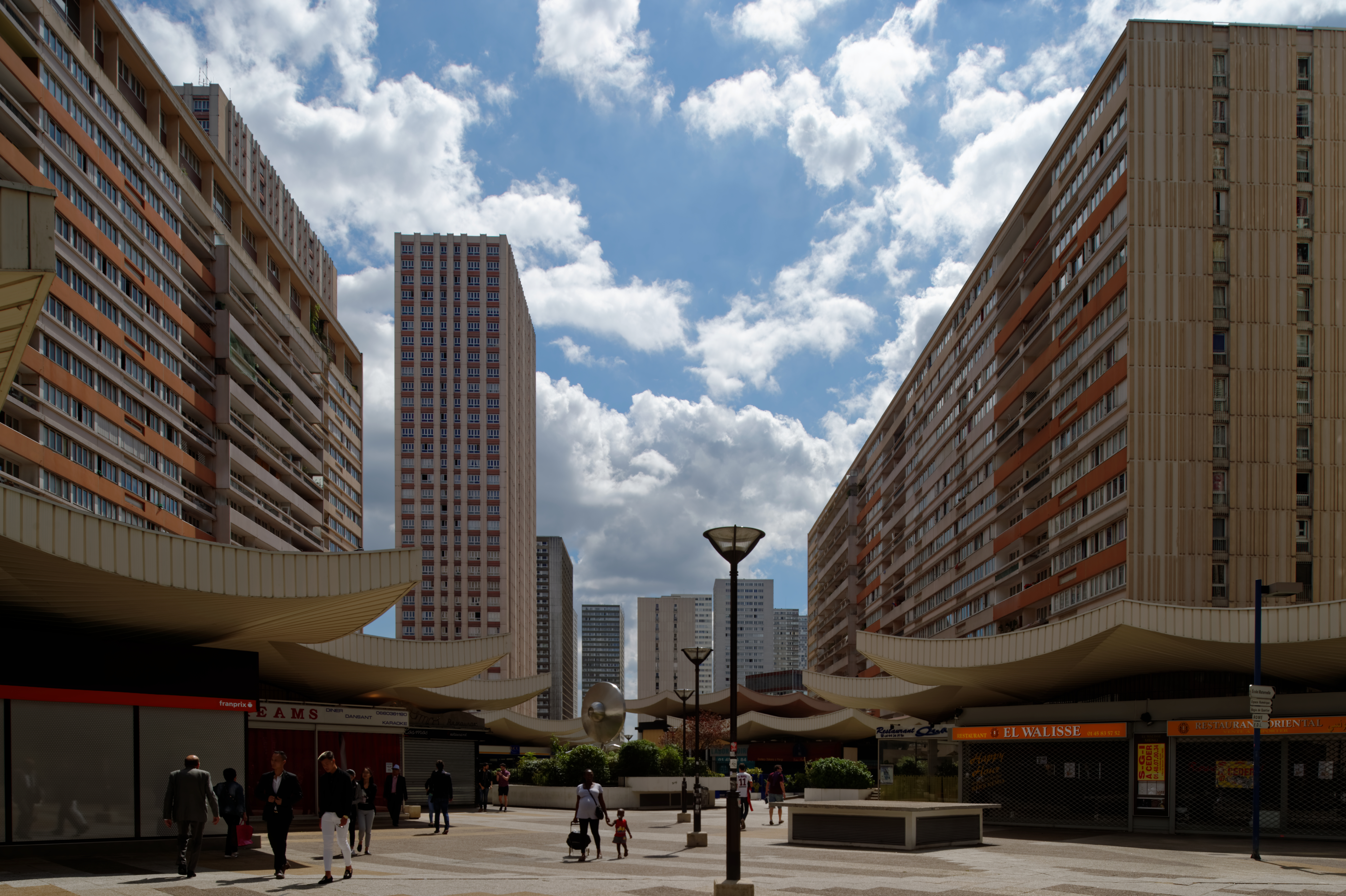 Paris, France, 13th arrondissement, Quartier Olympiades